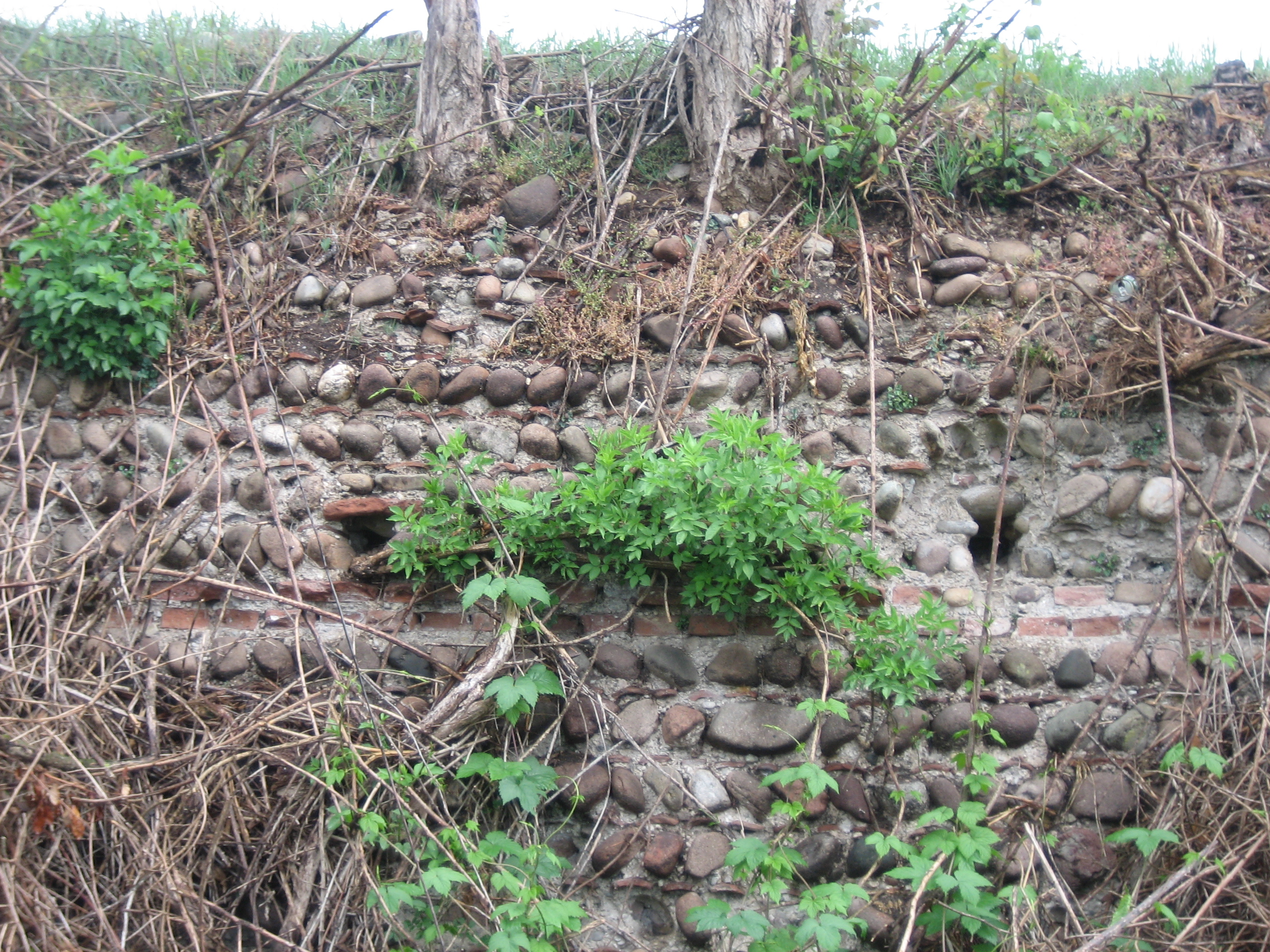 VillafrancaDiVerona Serraglio RuderiLungoIlFiumeTione 3 2012